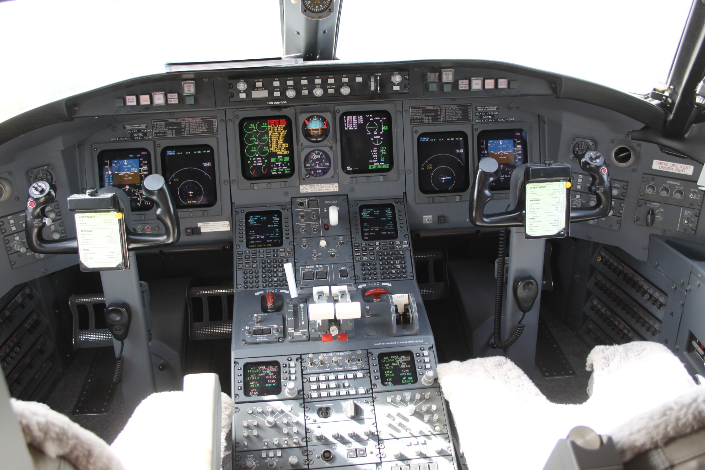 At Dubai